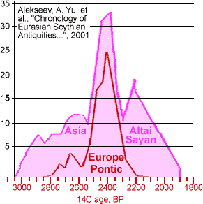 Sketch of Fig.6 from Alekseev, A. Yu. et al., "Chronology of Eurasian Scythian Antiquities Born by New Archaeological and 14C Data". Radiocarbon, Vol .43, No 2B, 2001, p 1085-1107. Article is copyrighted, but factual content itself is not subject to copyright. Sketch of Fig.6 presents information, and is my own presentation artwork.